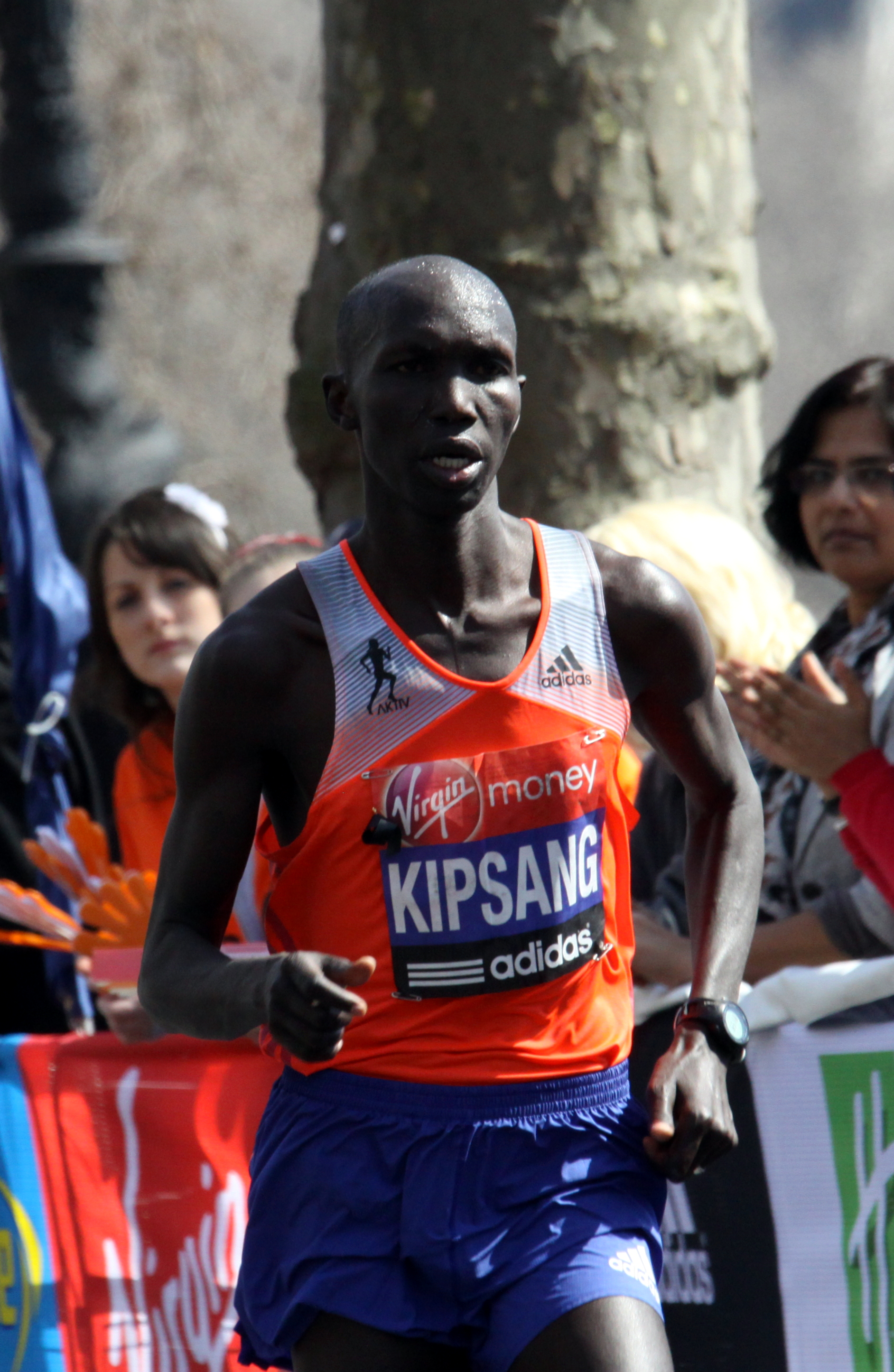 Wilson Kipsang during 2013 London Marathon, photographed at Victoria Embankment, London, Great Britain. The making of this file was supported by Wikimedia UK.